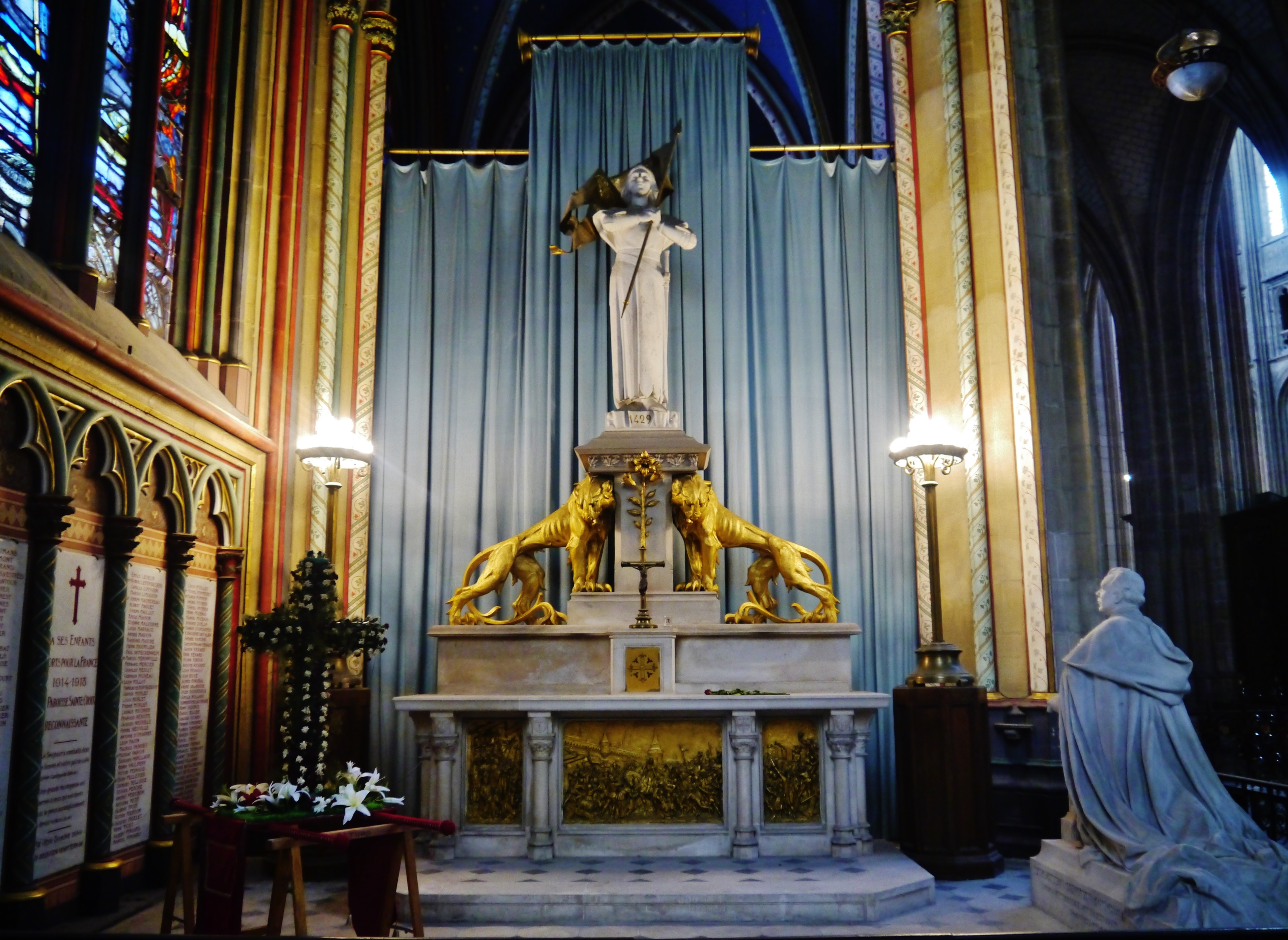 Statue of Joan of Arc at the Cathedral of the Holy Cross, Orléans, Department of Loiret, Region of Centre-Loire Valley, France